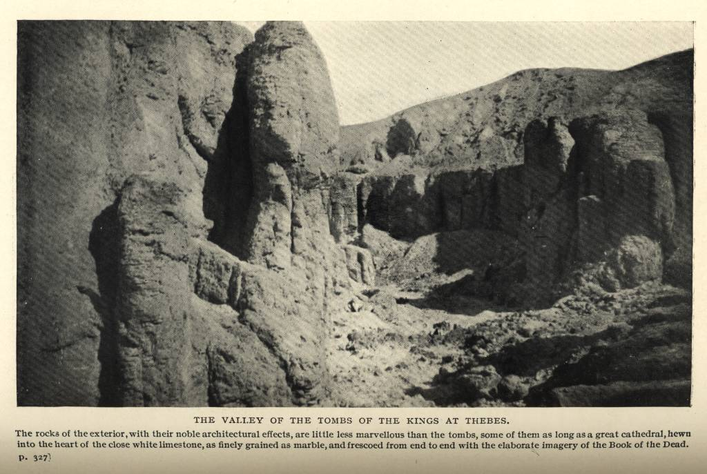 A large tomb.